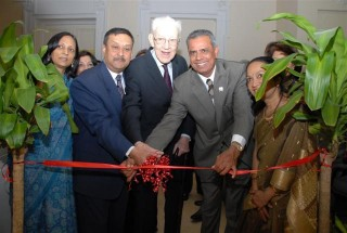 From left): Mrs. Dayal, Consul-General Prabhu Dayal, Ambassador Philip Talbot, Assemblyman Upendra Chivikula and noted artiste Ms. Jaya Thyagarajan.